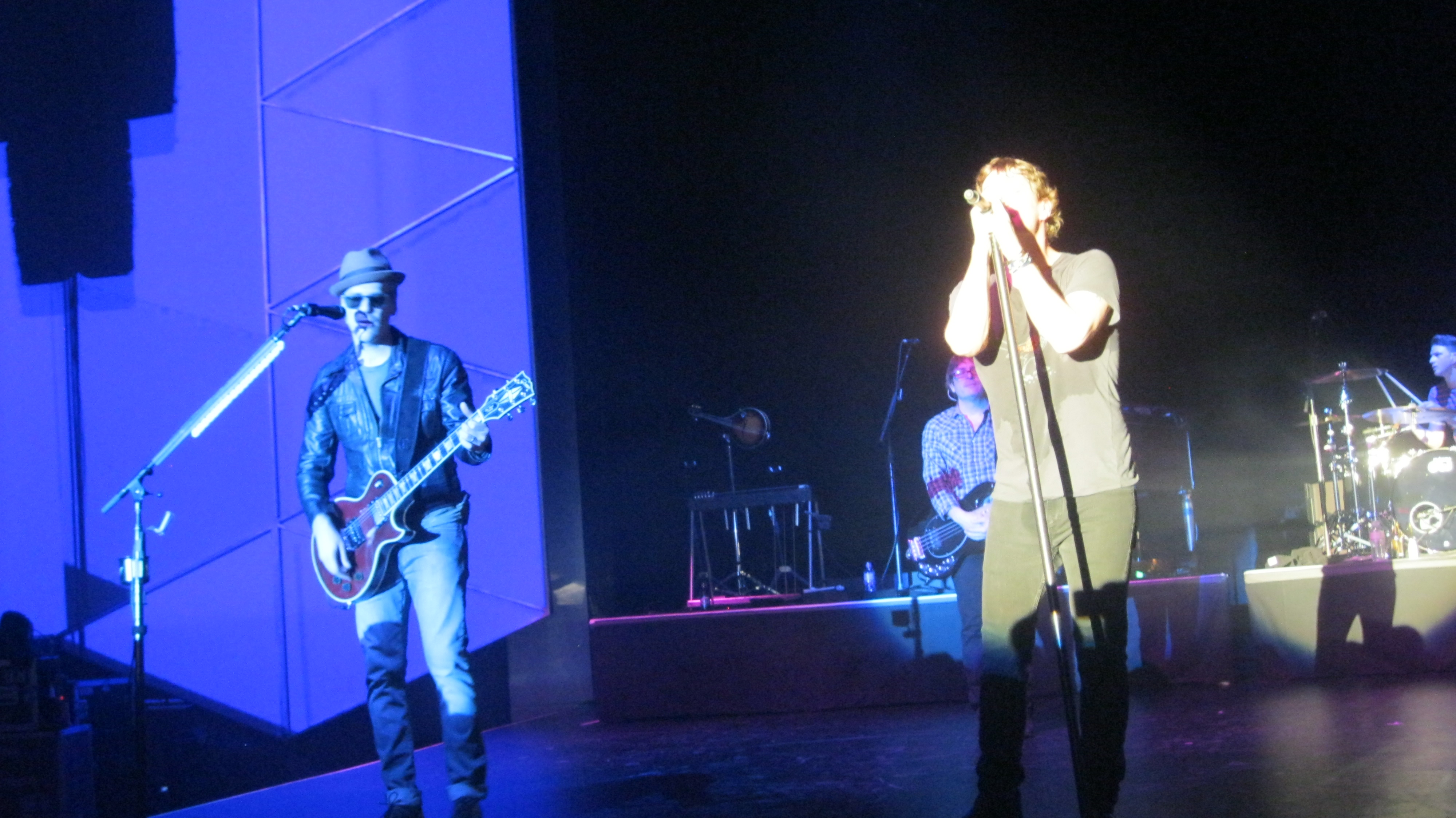 Took at Matchbox Twenty concert at Las Vegas (The Venetian) - IBM Impact 2013-04-30.